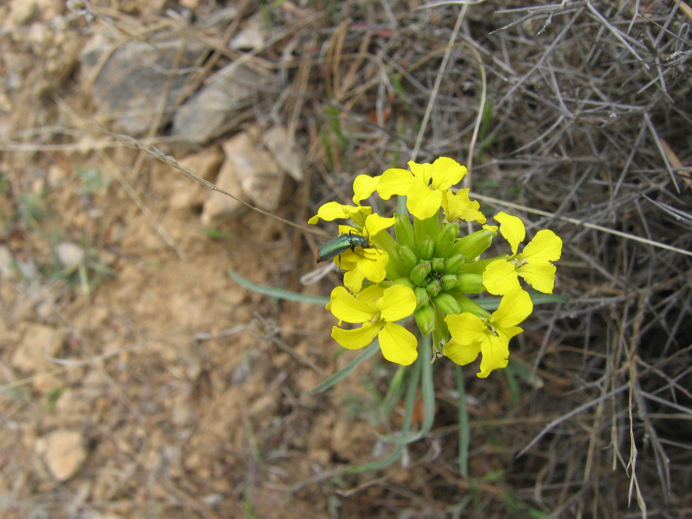 Malachius laticolis on Erysimum mediohispanicum flowers